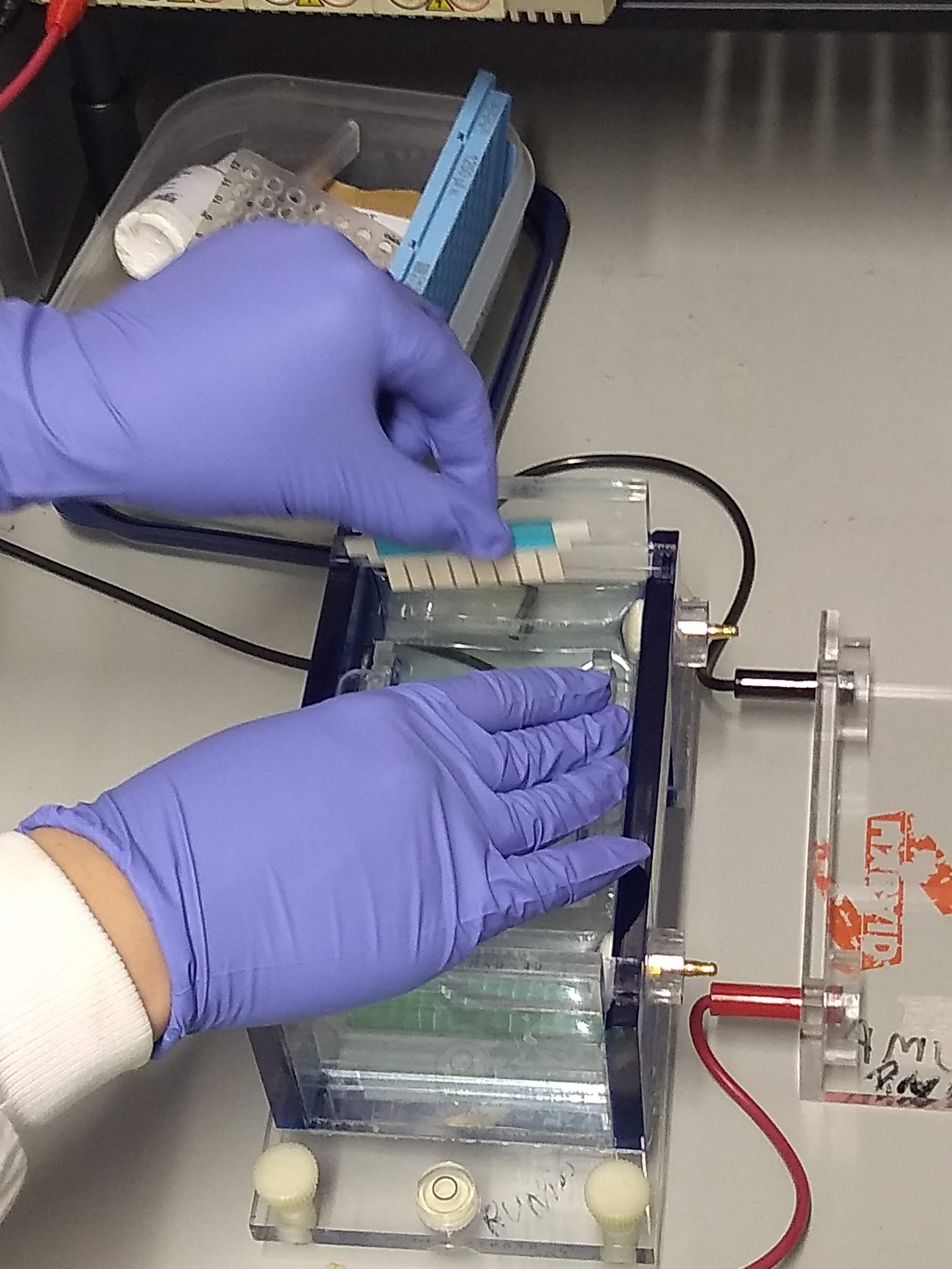 Gel electrophoresis insert comb